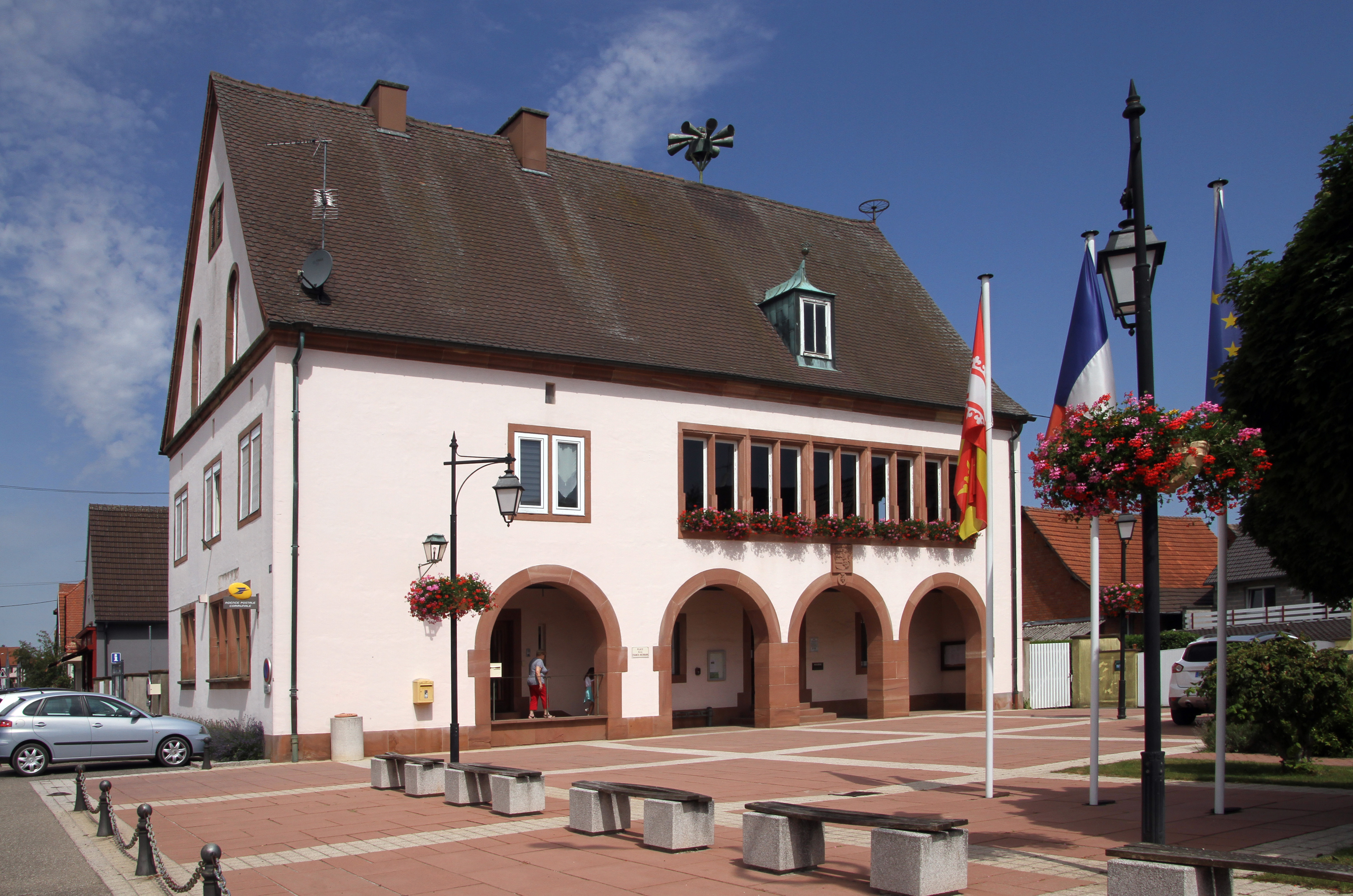 City hall of Rittershoffen.